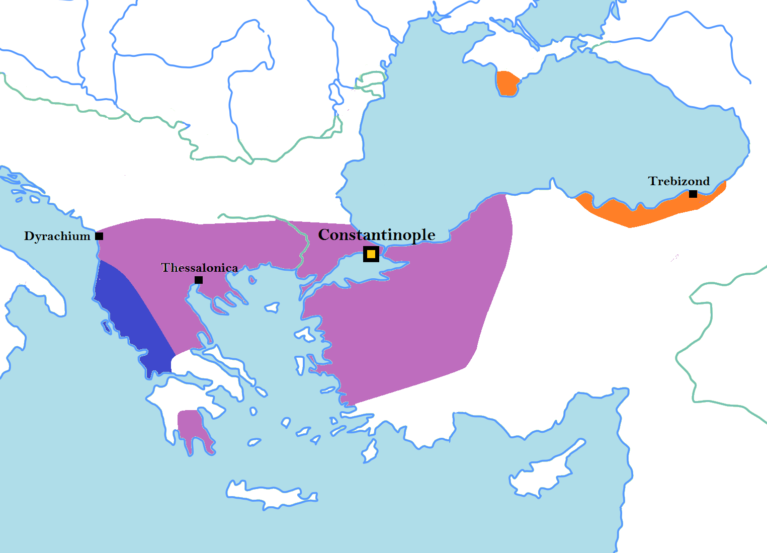 Map of the Byzantine Empire in 1265, with the other Byzantine realms of Epirus in blue and Trebizond in orange